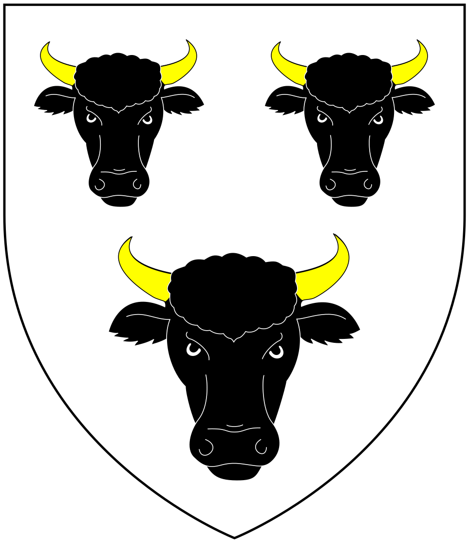 Arms of Walrond of Bradfield, Devon: Argent, three bull's heads cabossed sable armed or; Crest: A heraldic tiger sable pellete (Burke's Landed Gentry, 1937, p.2353)